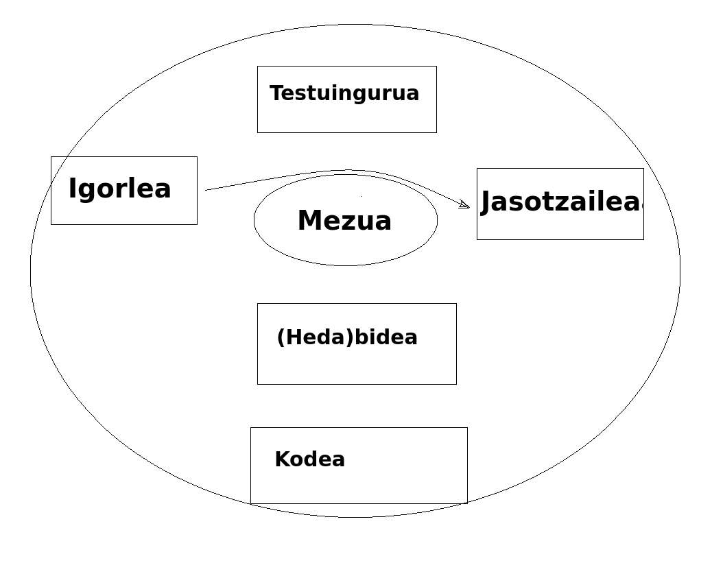 Roman Jakobson's Theory of Communication.